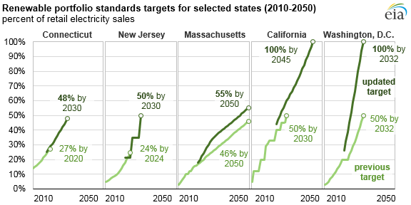 As of the end of 2018, 29 states and the District of Columbia (DC) had renewable portfolio standards (RPS), polices that require electricity suppliers to supply a set share of their electricity from designated renewable resources or eligible technologies. Although no additional states have adopted an RPS policy since Vermont in 2015, Connecticut, New Jersey, Massachusetts, California, and the District of Columbia extended their existing targets in 2018 or early 2019, continuing a trend in recent years across the United States. February 27, 2019